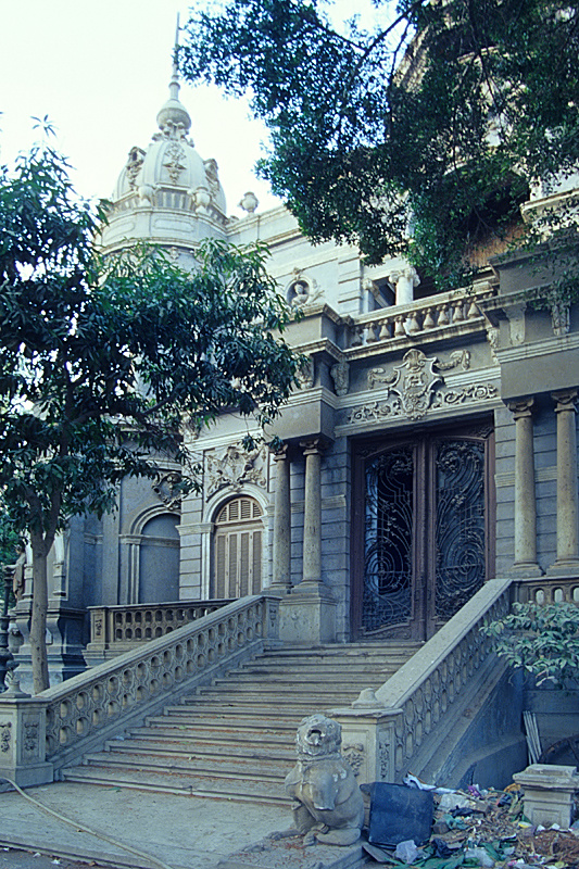 Main entrance, Palace of Sakakini, el-Sakakini, cairo, Egypt